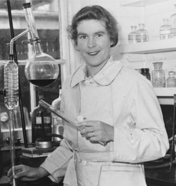 New Zealand botanist and mycologist Dr Greta Barbara Stevenson in a laboratory, probably in Wellington